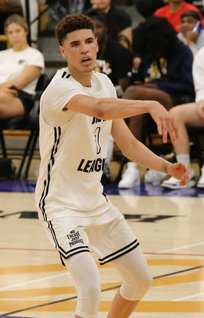 LaMelo goes to the Drew League to prepare for the pros